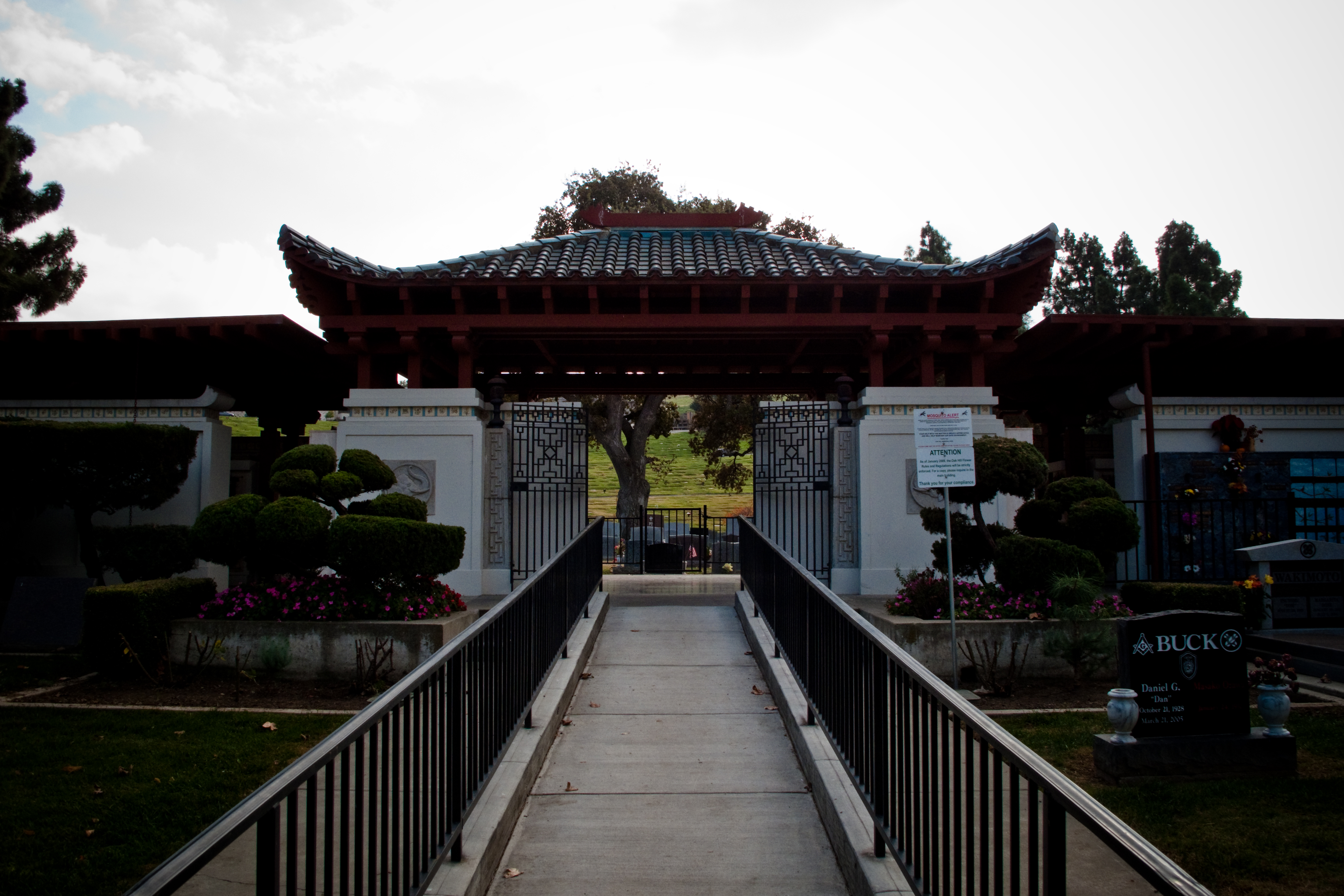 Taken at Oak Hill Memorial Park on December 5, 2009.